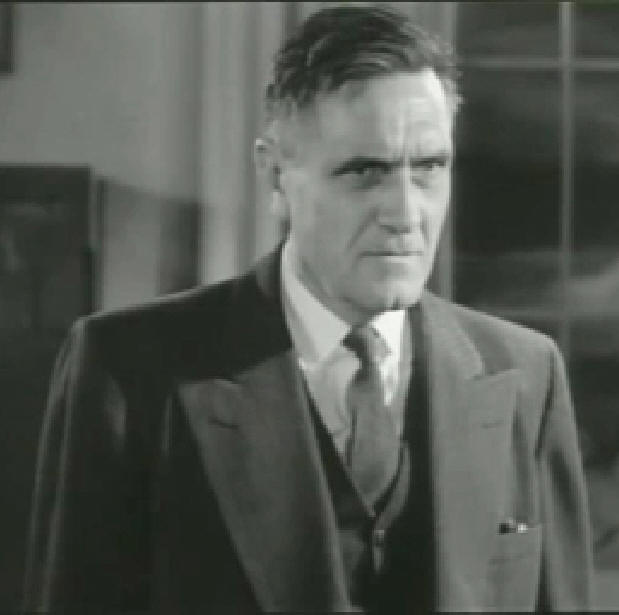 Morris Ankrum in Rocketship X-M (cropped screenshot)